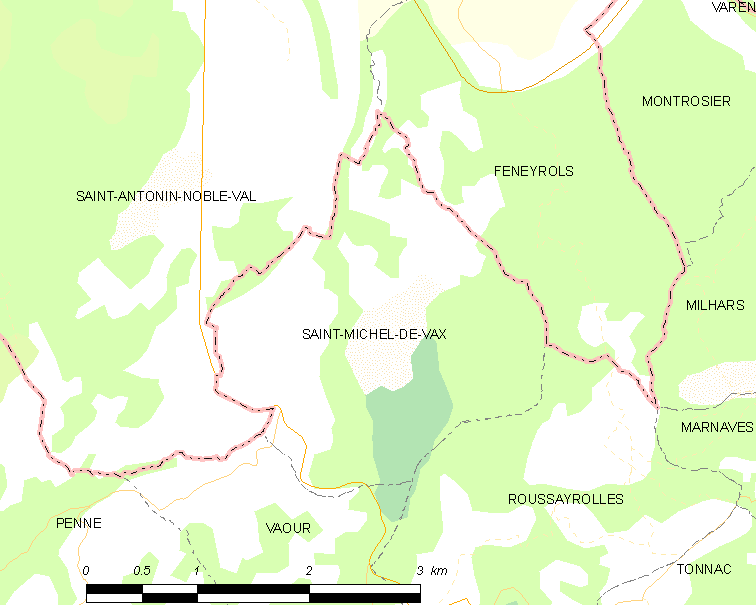 Map of French municipality Saint-Michel-de-Vax